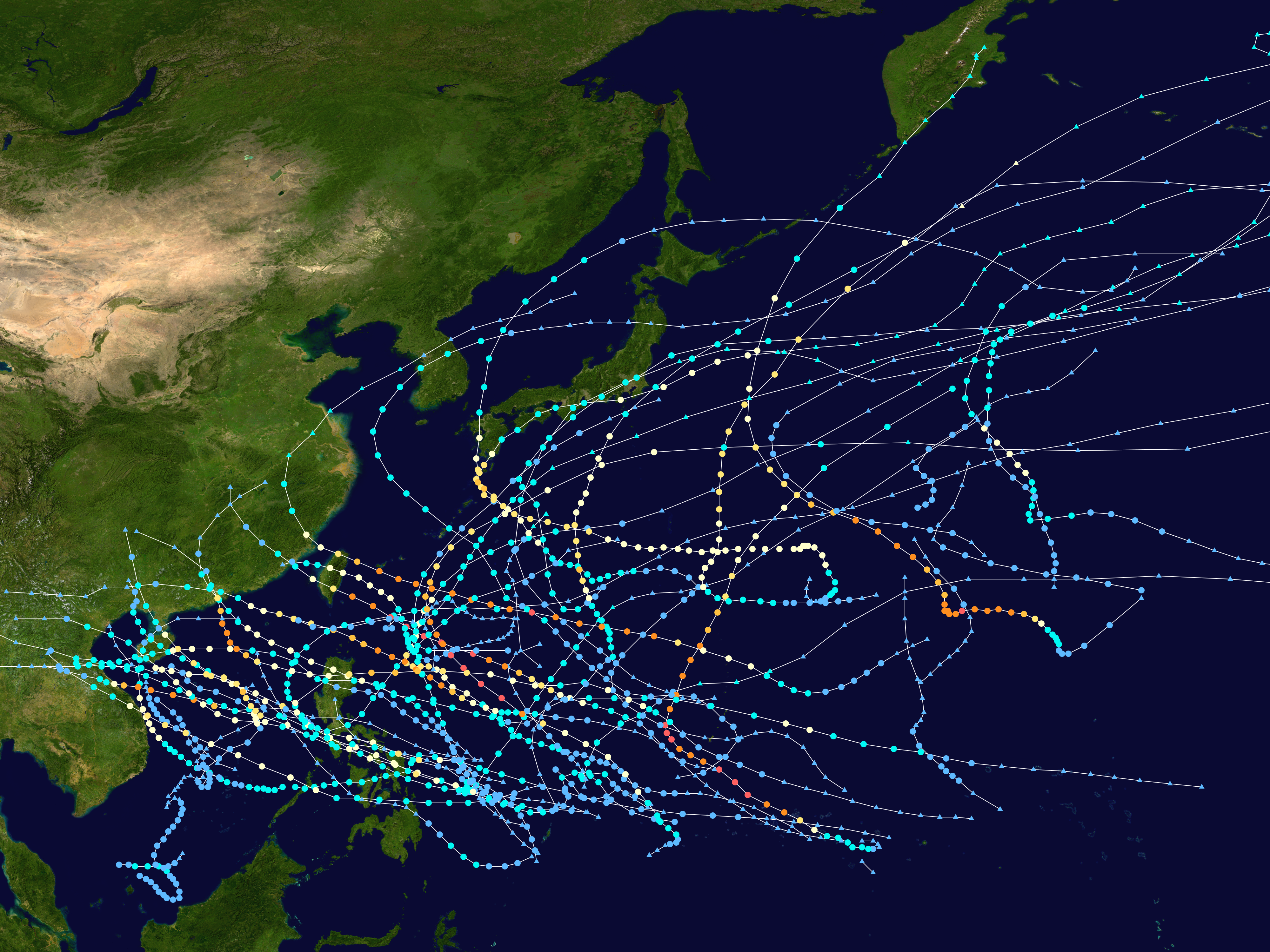 This map shows the tracks of all tropical cyclones in the 1971 Pacific typhoon season. The points show the location of each storm at 6-hour intervals. The colour represents the storm's maximum sustained wind speeds as classified in the Saffir-Simpson Hurricane Scale (see below), and the shape of the data points represent the type of the storm. Saffir–Simpson hurricane wind scale Tropical depression≤38 mph≤62 km/h Category 3111–129 mph178–208 km/h Tropical storm39–73 mph63–118 km/h Category 4130–156 mph209–251 km/h Category 174–95 mph119–153 km/h Category 5≥157 mph≥252 km/h Category 296–110 mph154–177 km/h Unknown Storm typeTropical cycloneSubtropical cycloneExtratropical cyclone / Remnant low / Tropical disturbance